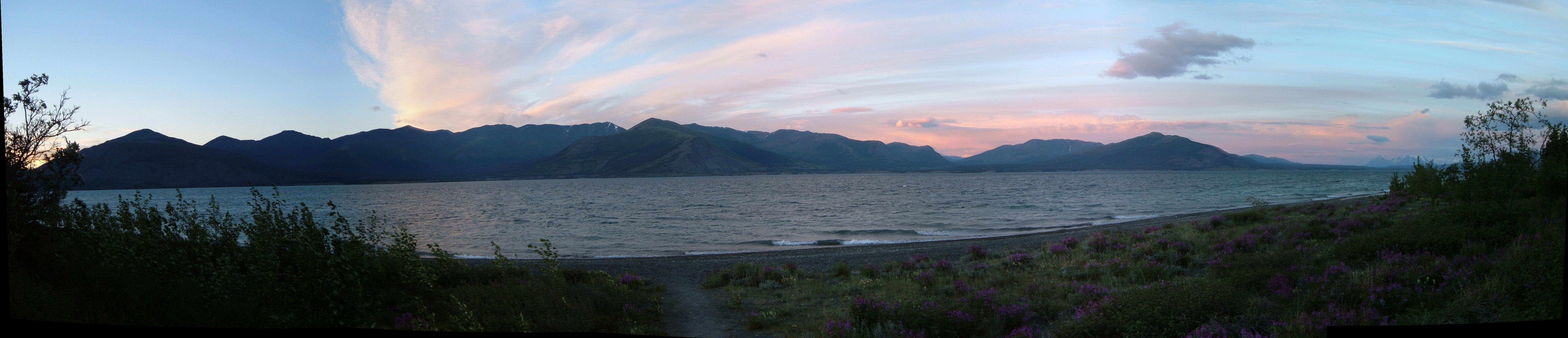 Kluane Lake